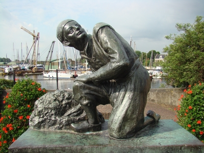 statue of fictive figure Hans Brinker by Gra Rueb, Spaarndam-West/The Netherlands